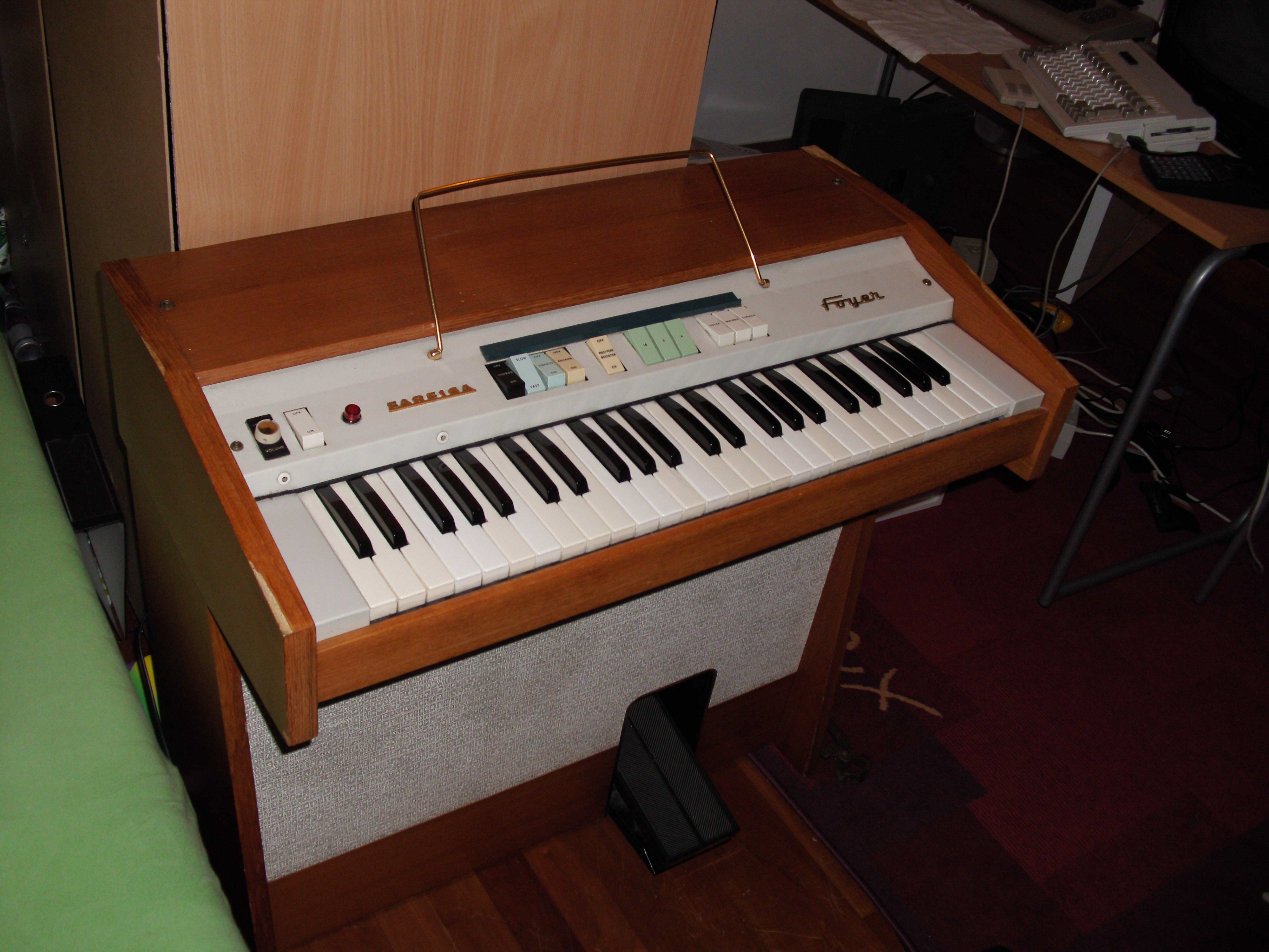 A Farfisa organ